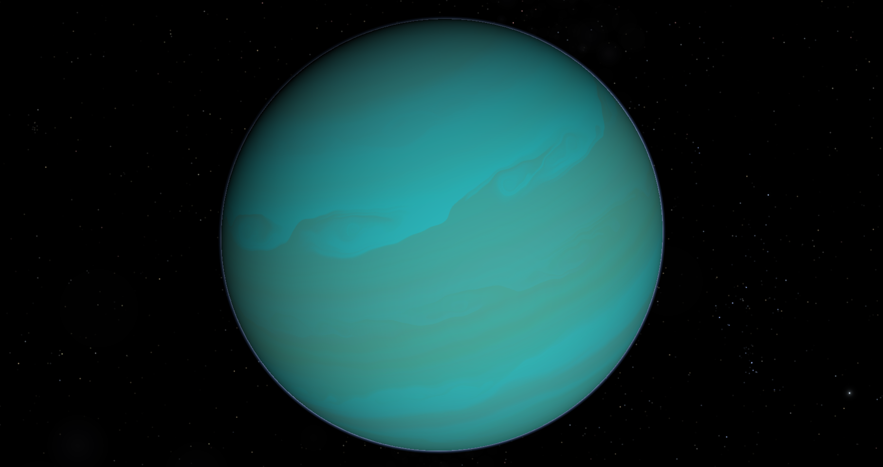 Exo-planet Gliese876 c